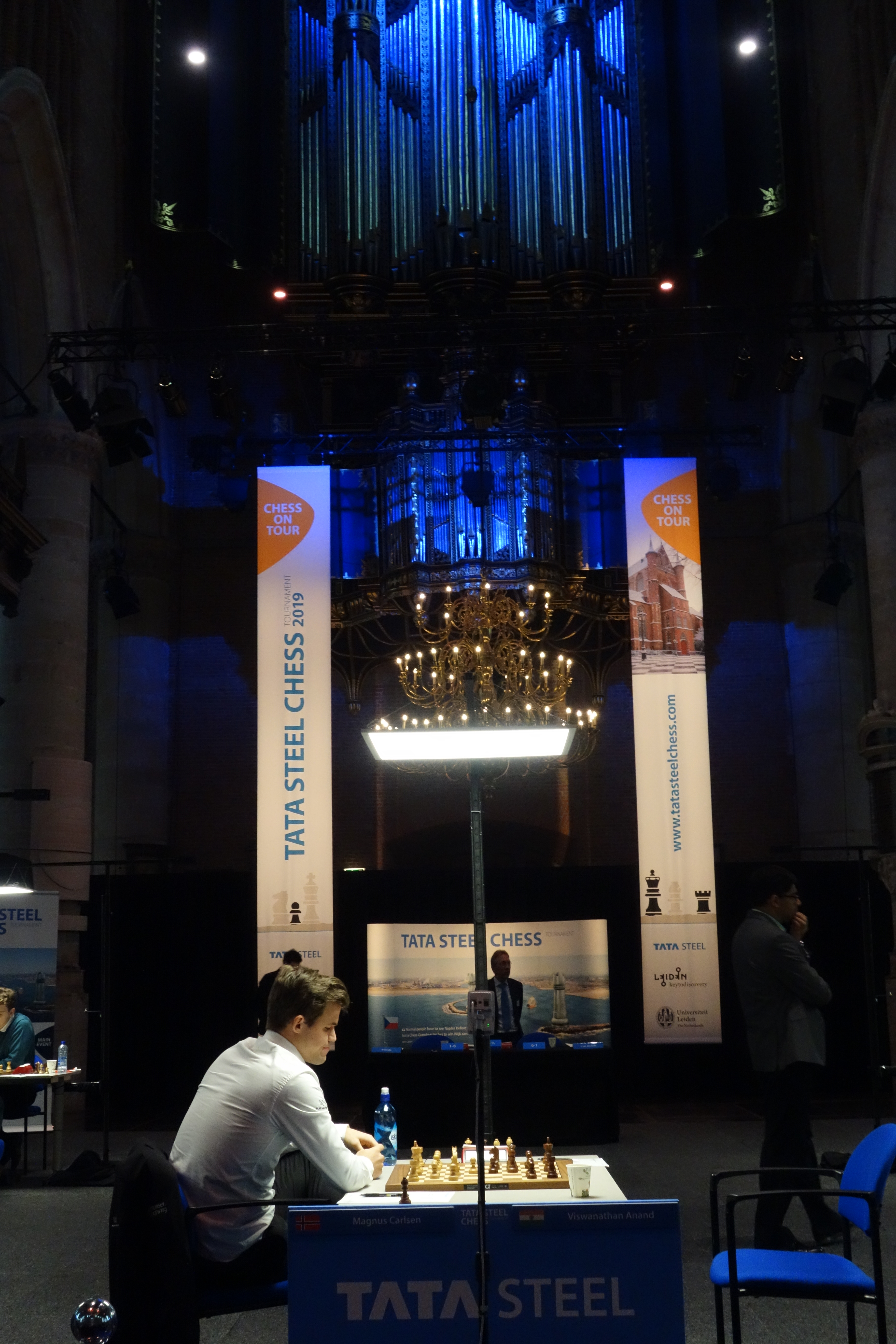 Tata Steel Chess Tournament in Leiden, the Netherlands, 23 January 2019. Magnus Carlsen